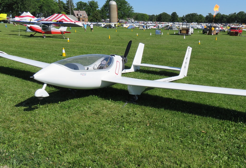 Melody Song